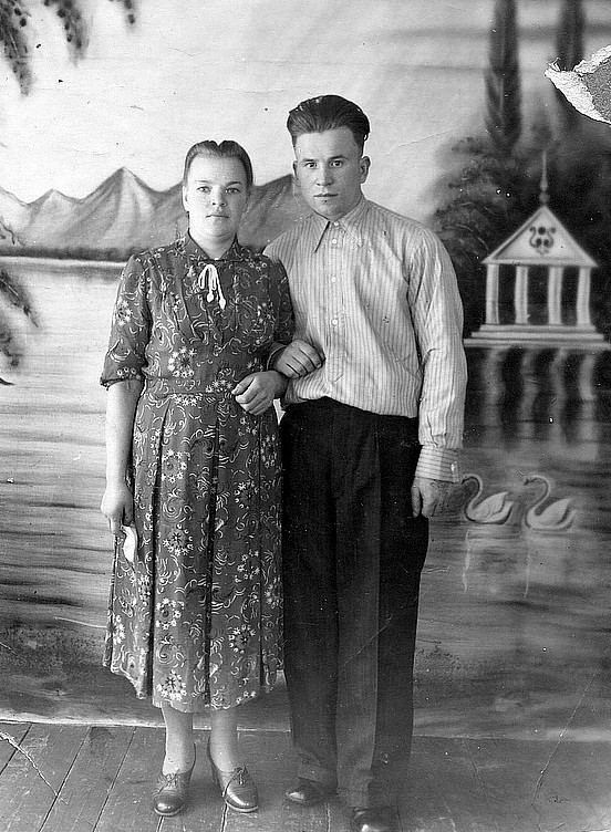 Photo of Adam and Eugenia Yastkov